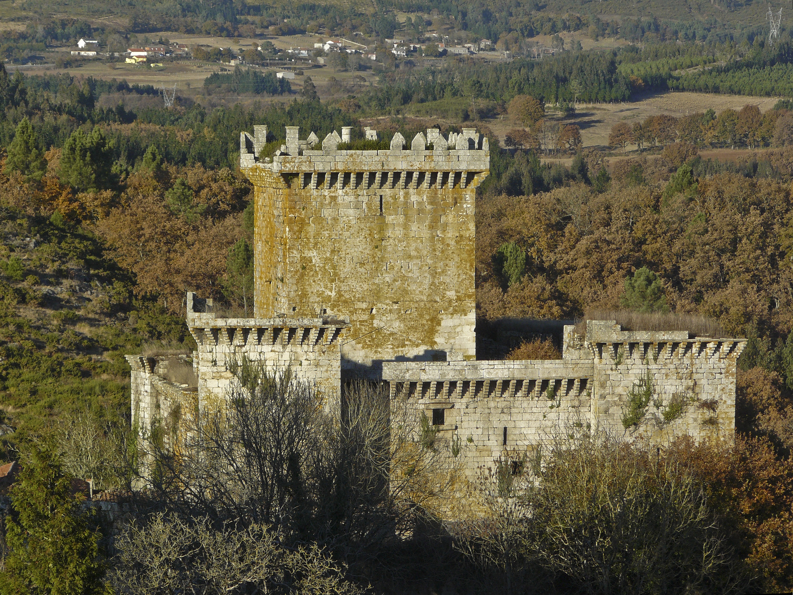 Pambre Castle - Palas de Rei -Galiza - Spain